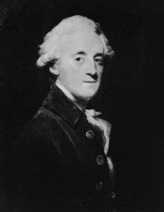 Frederick Ponsonby, 3rd Earl of Bessborough (1758-1844)